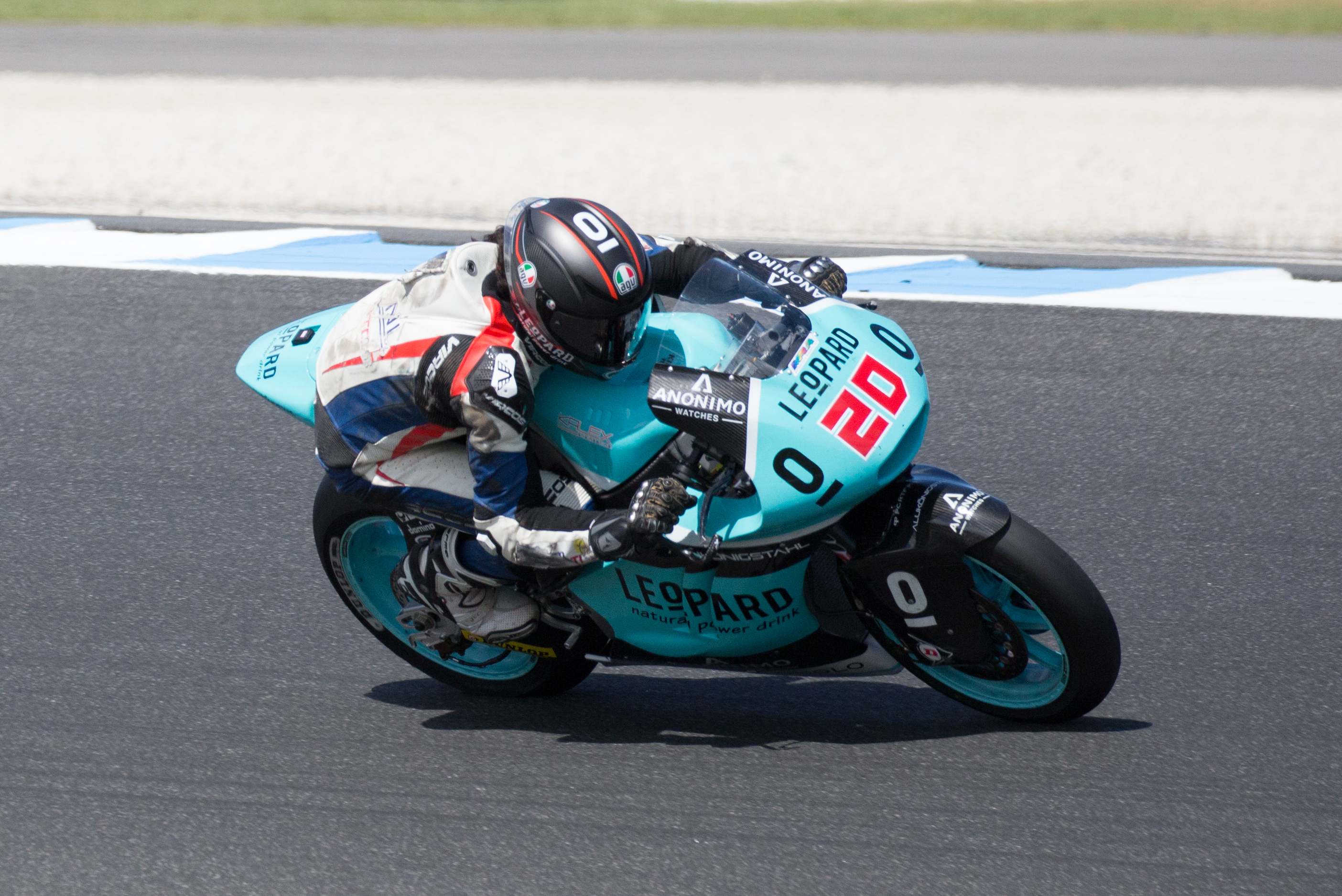 2016 Australian motorcycle Grand Prix – Moto2 – #20 Alessandro Nocco – Kalex – Leopard Racing